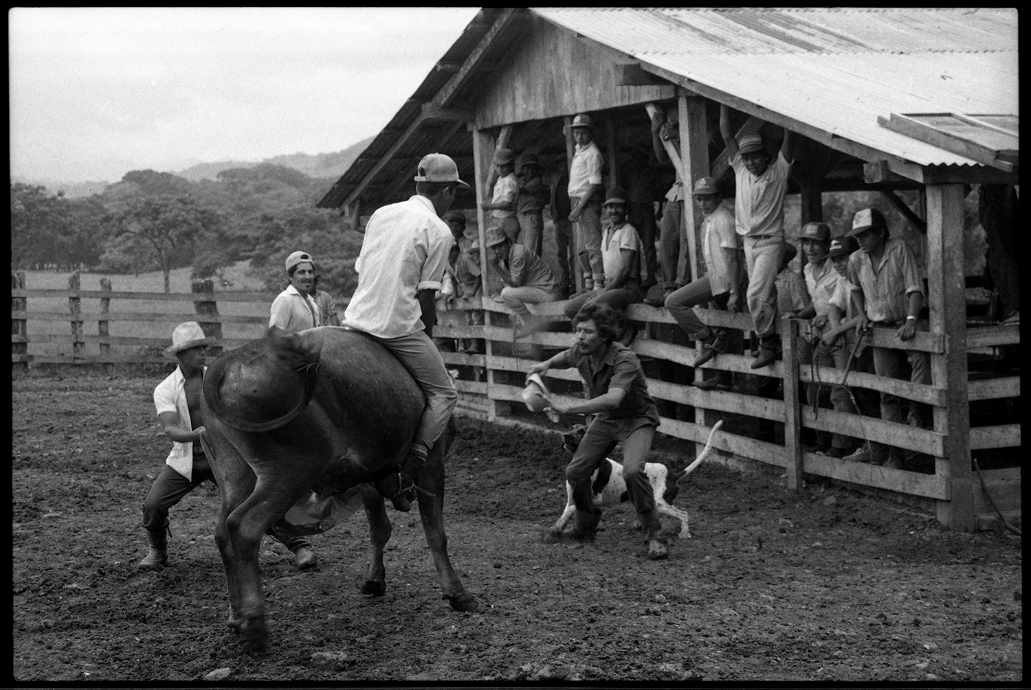 Workers at a cooperative out on the countryside in Nicaragua, amuse themselves with an improvised rodeo.